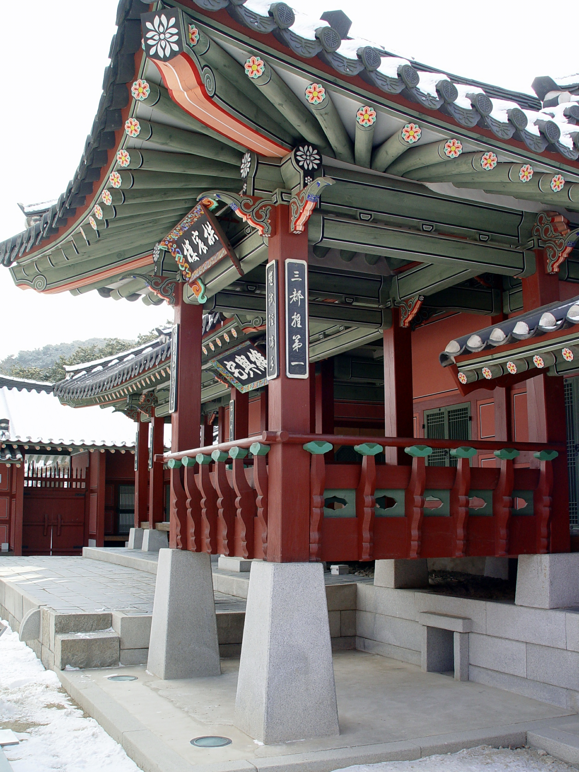 Yuyeotaek, Haenggung, Hwaseong Fortress, Suwon, South Korea